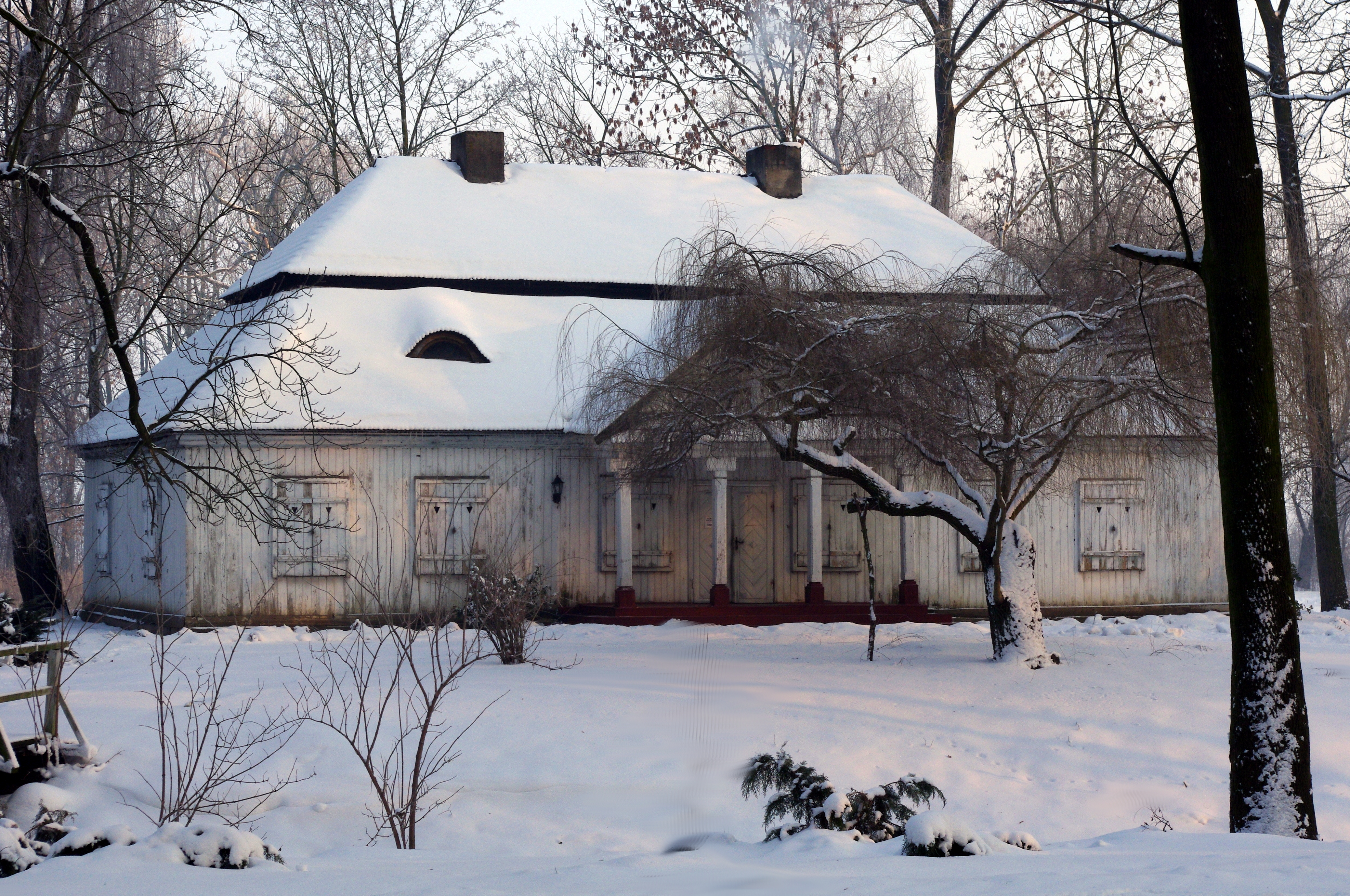 The wooden manor house in Łęki Kościelne (Poland)